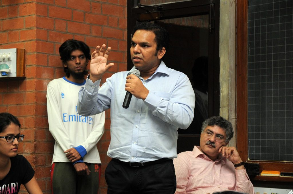 Srijan Pal Singh speaking at IIM